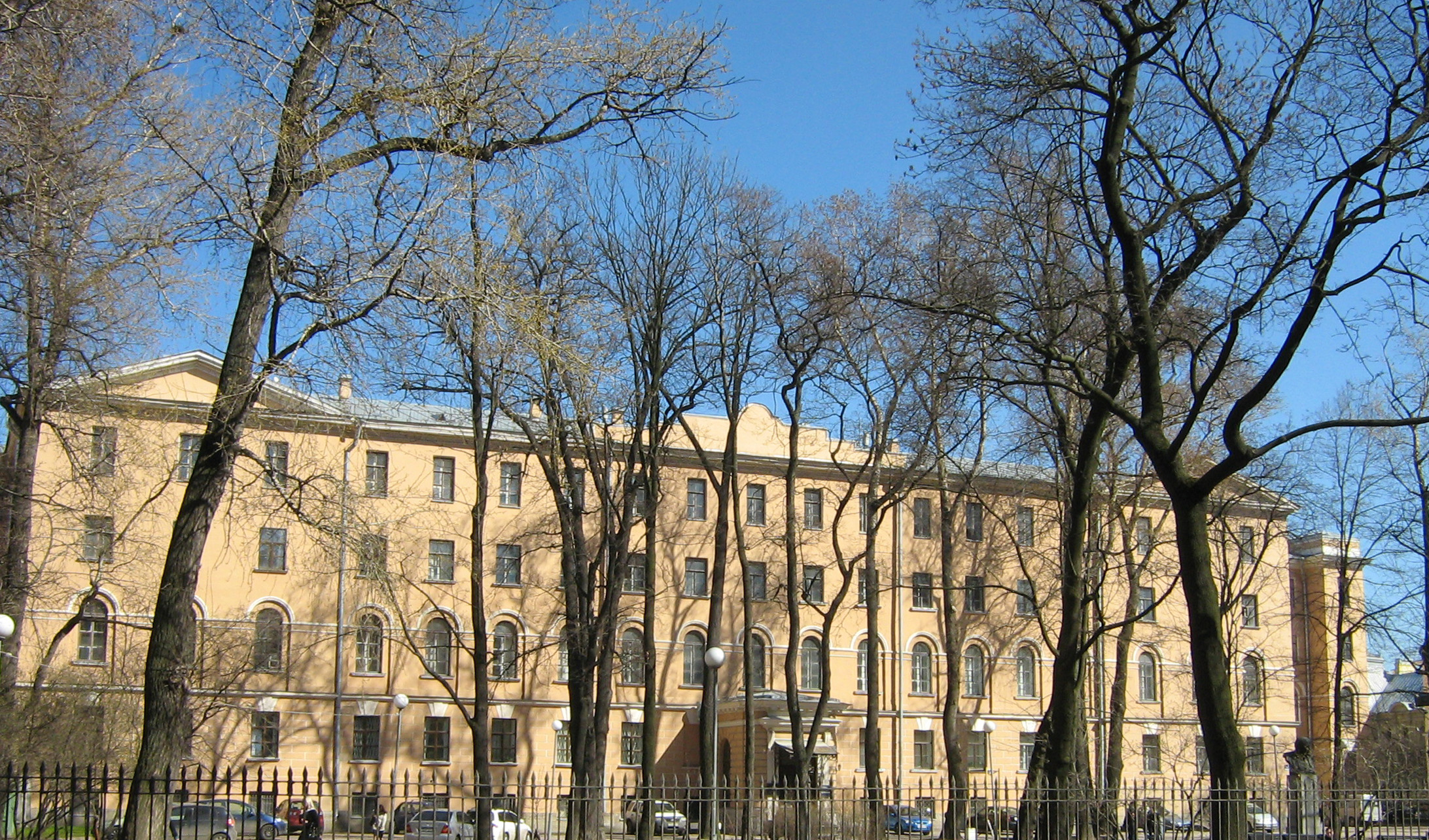 Alexandrovsky Liceum building in Saint-Petersburg, Russia (Kamennoostrovsky avenue, 21)